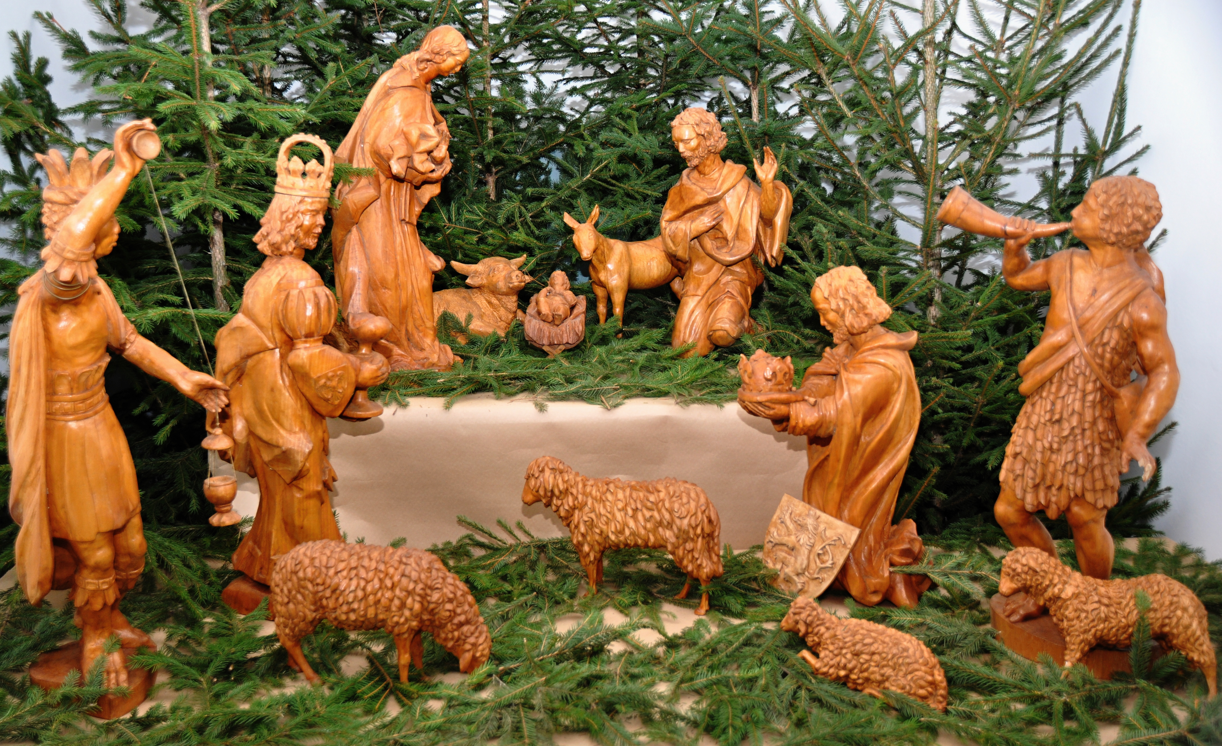 Betlém v senetářovském kostele Sv. Josefa, vyřezaný Františkem Radou.